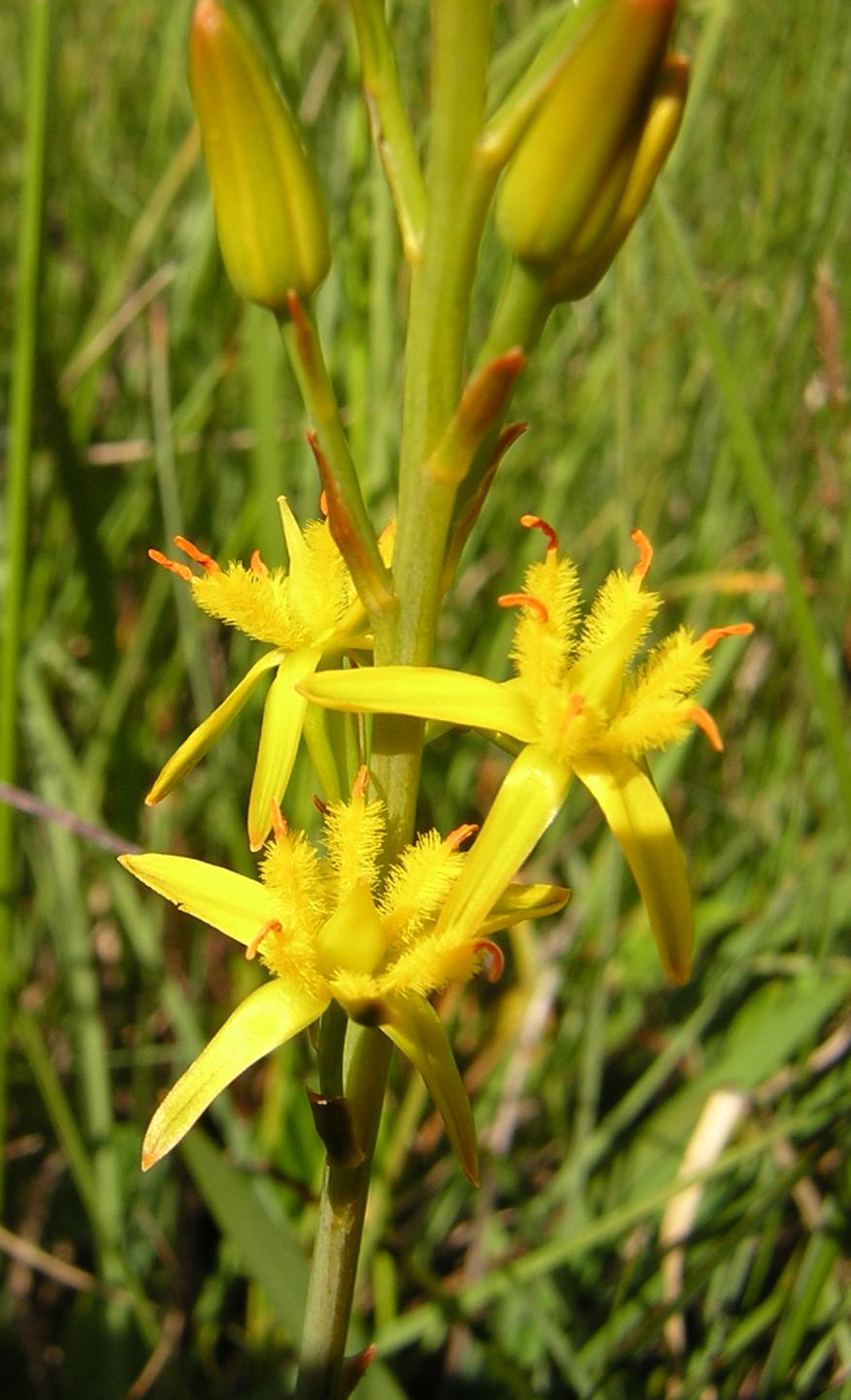 Narthecium ossifragum, flowers Black Isle, Scotland Source : [1]